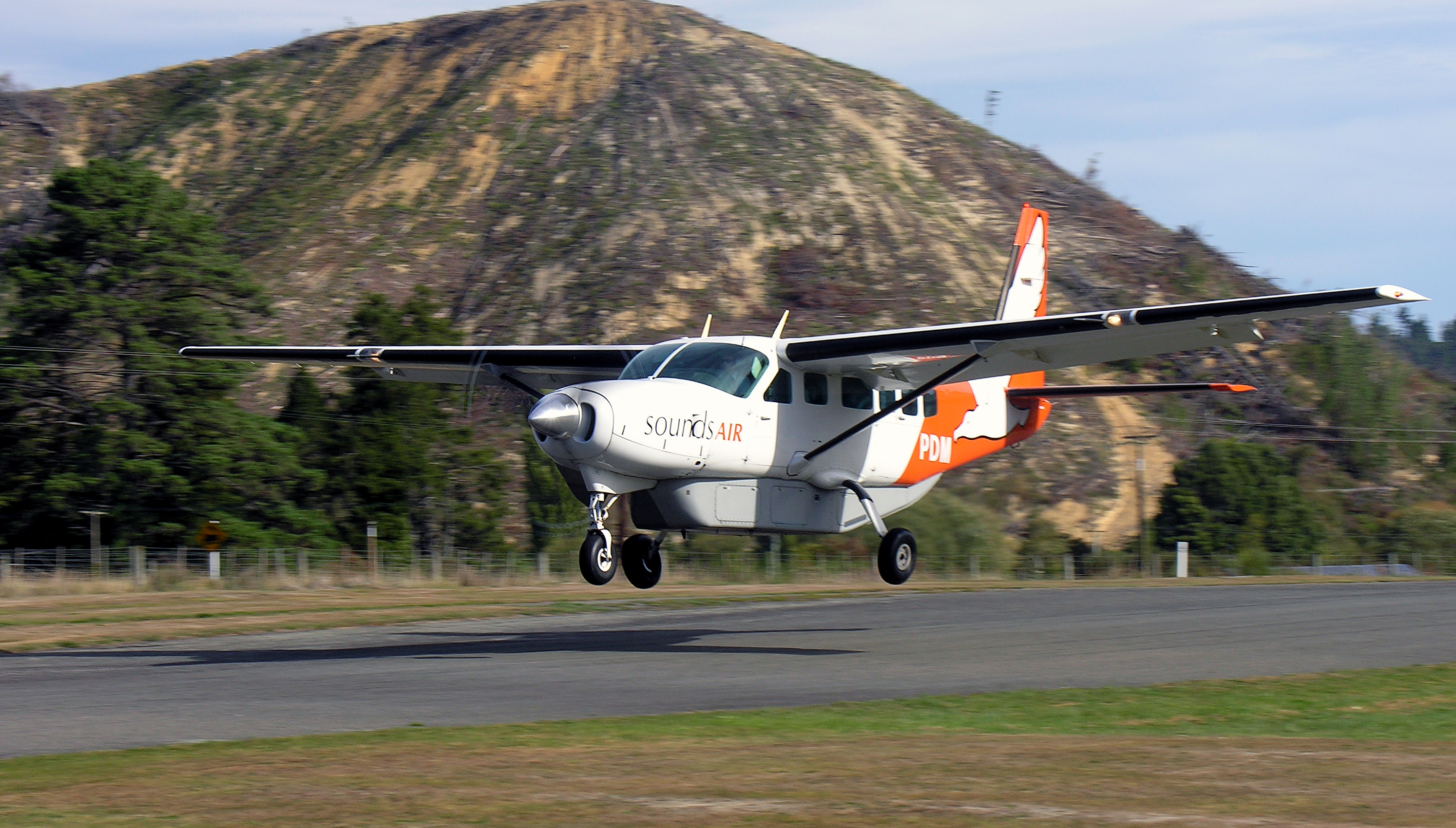 Cessna Caravan, at Koromiko, Marlborough, New Zealand. 11 March, 2006